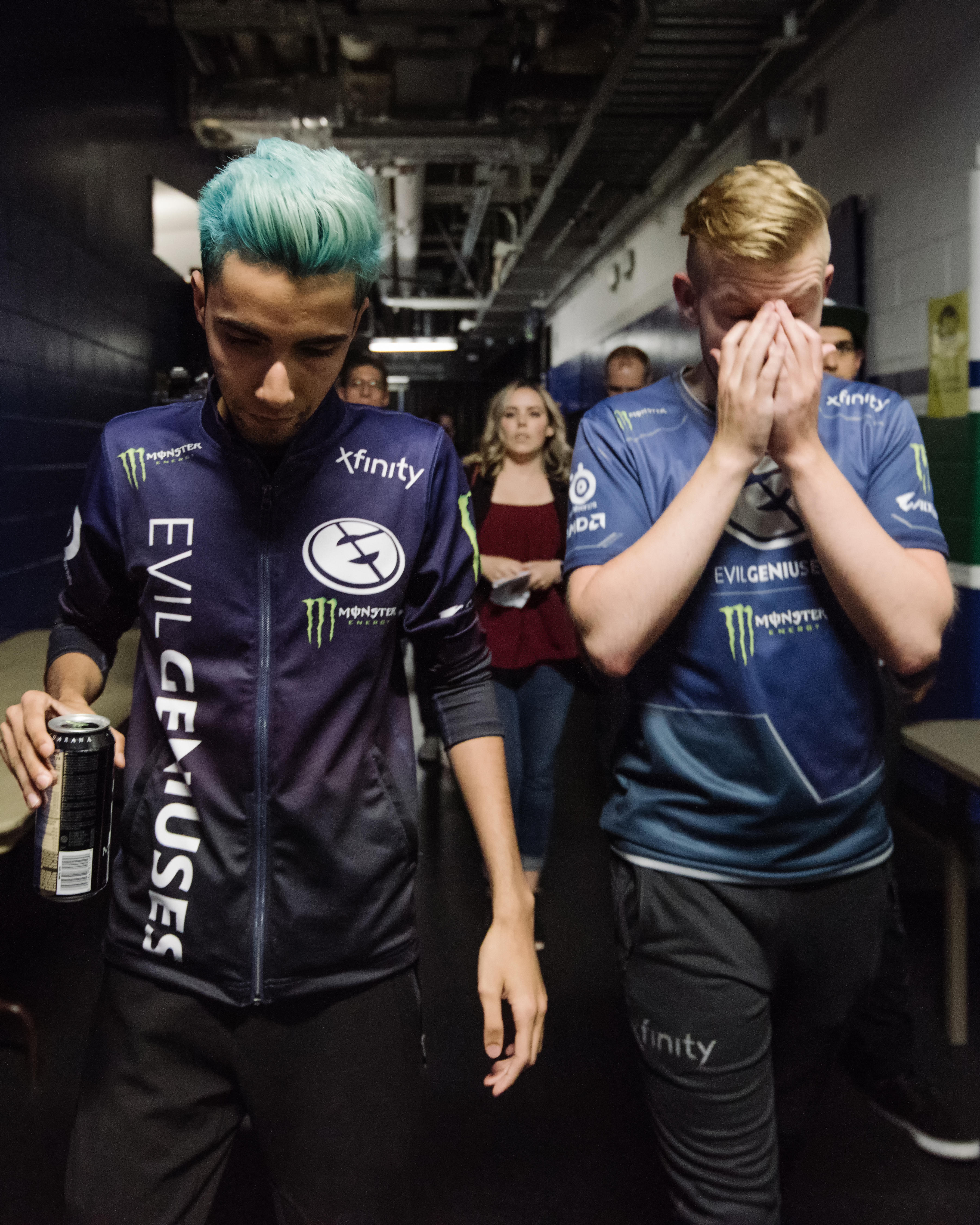 The International 2018